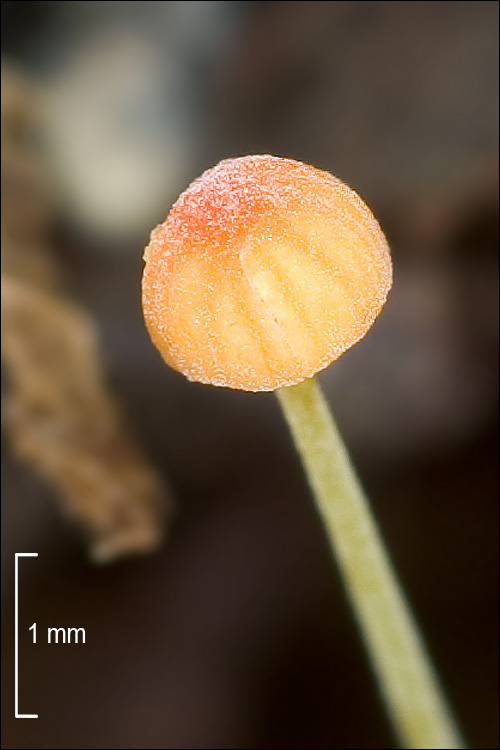 The mushroom Mycena acicula (Schaeff.) P. Kumm. Photographed in West of Bovec, East Julian Alps, Posočje, Slovenia.